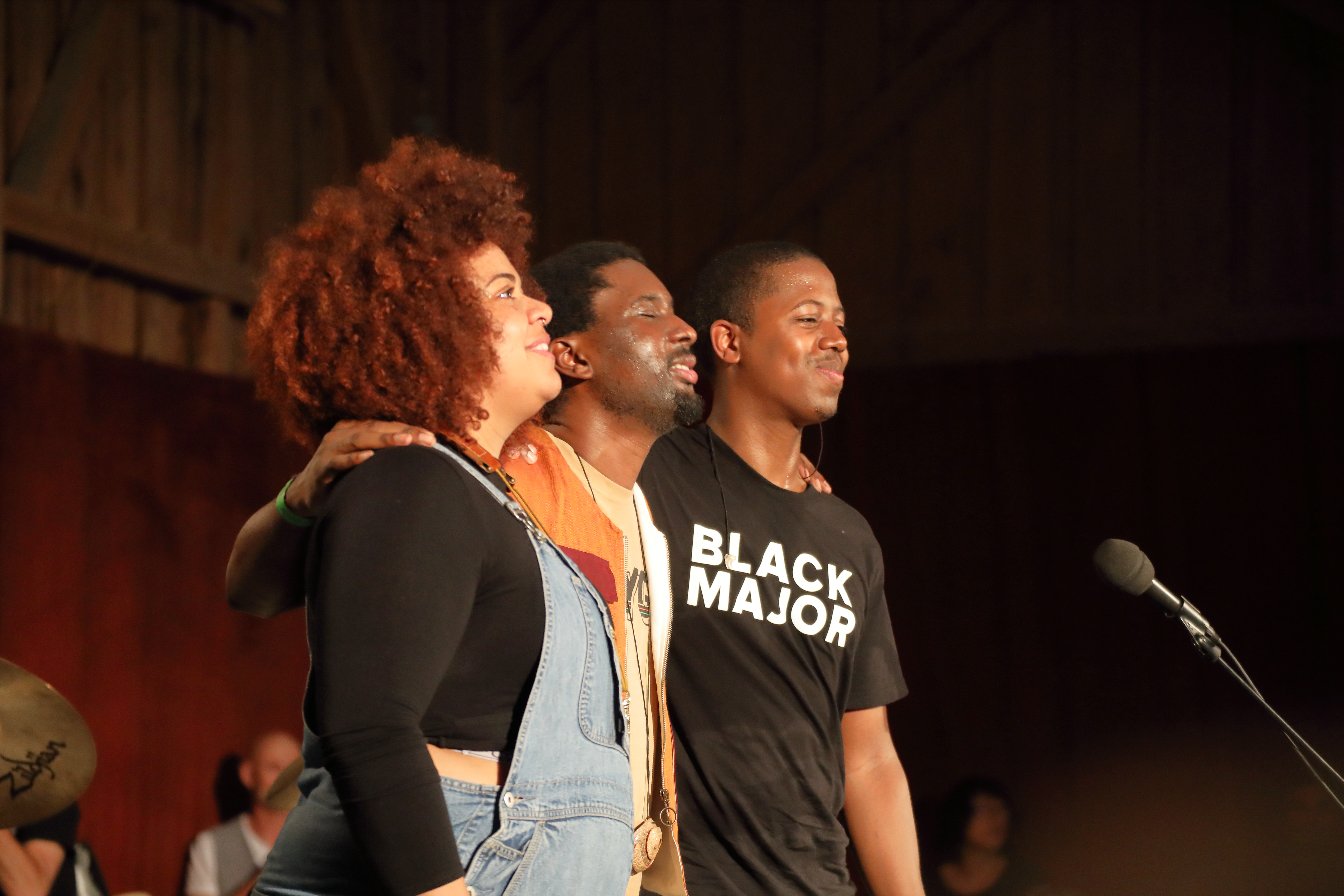 Theon Cross with Chelsea Carmichael and Moses Boyd at INNtöne Jazzfestival 2019. L.t.r. Chelsea Carmichael (sax), Theon Cross (tb), Moses Boyd (dr).